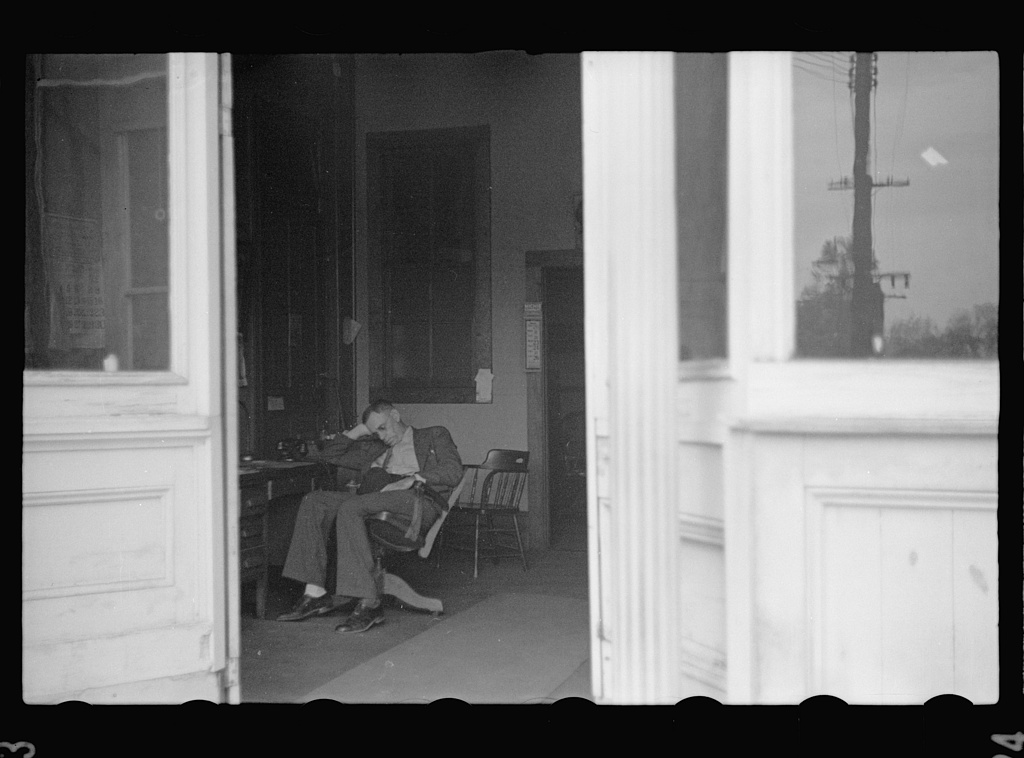 "Law office, Goldsboro, North Carolina. Title and other information from caption card."